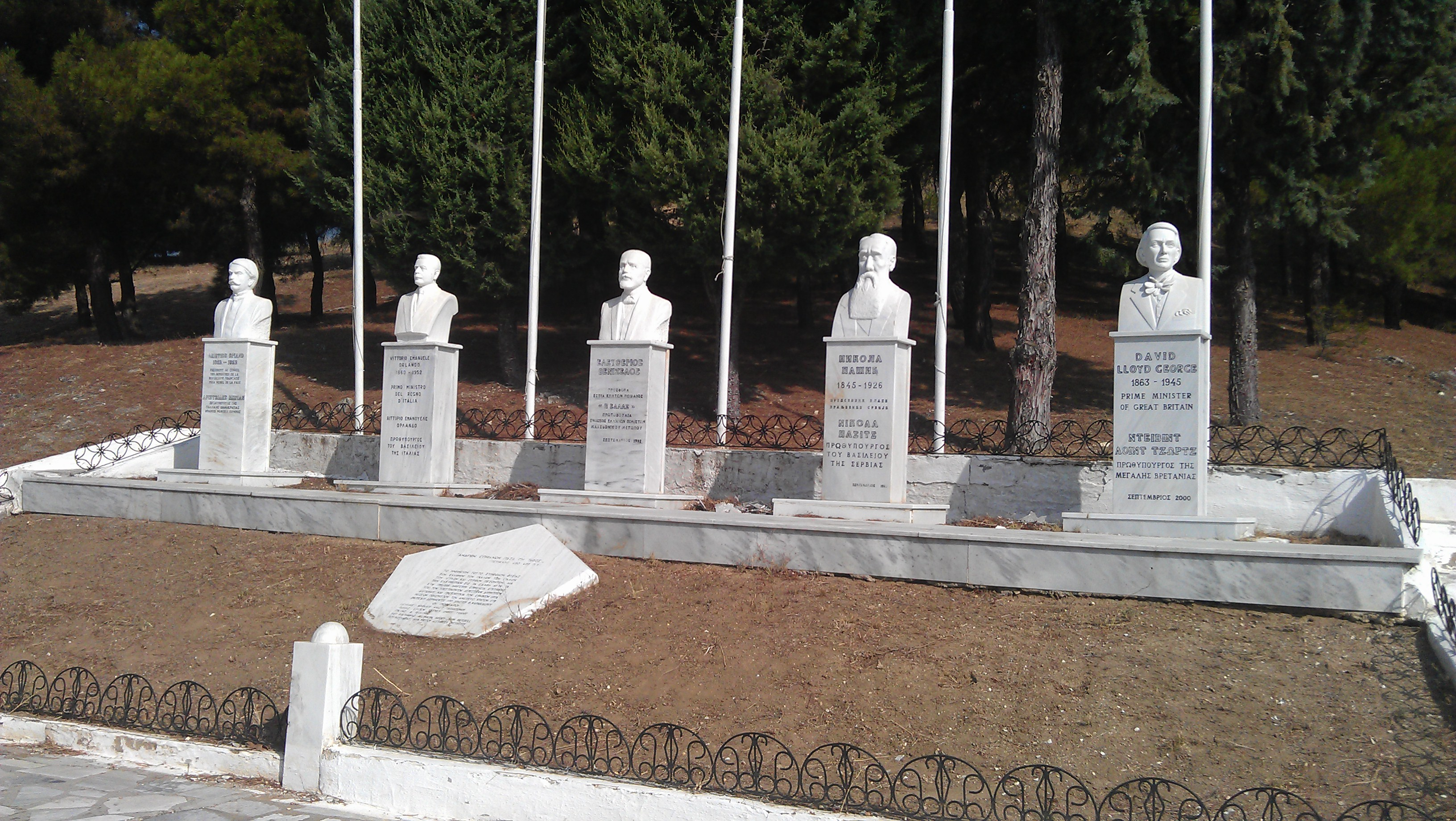 Monument in Greece for Salonika front from WWI